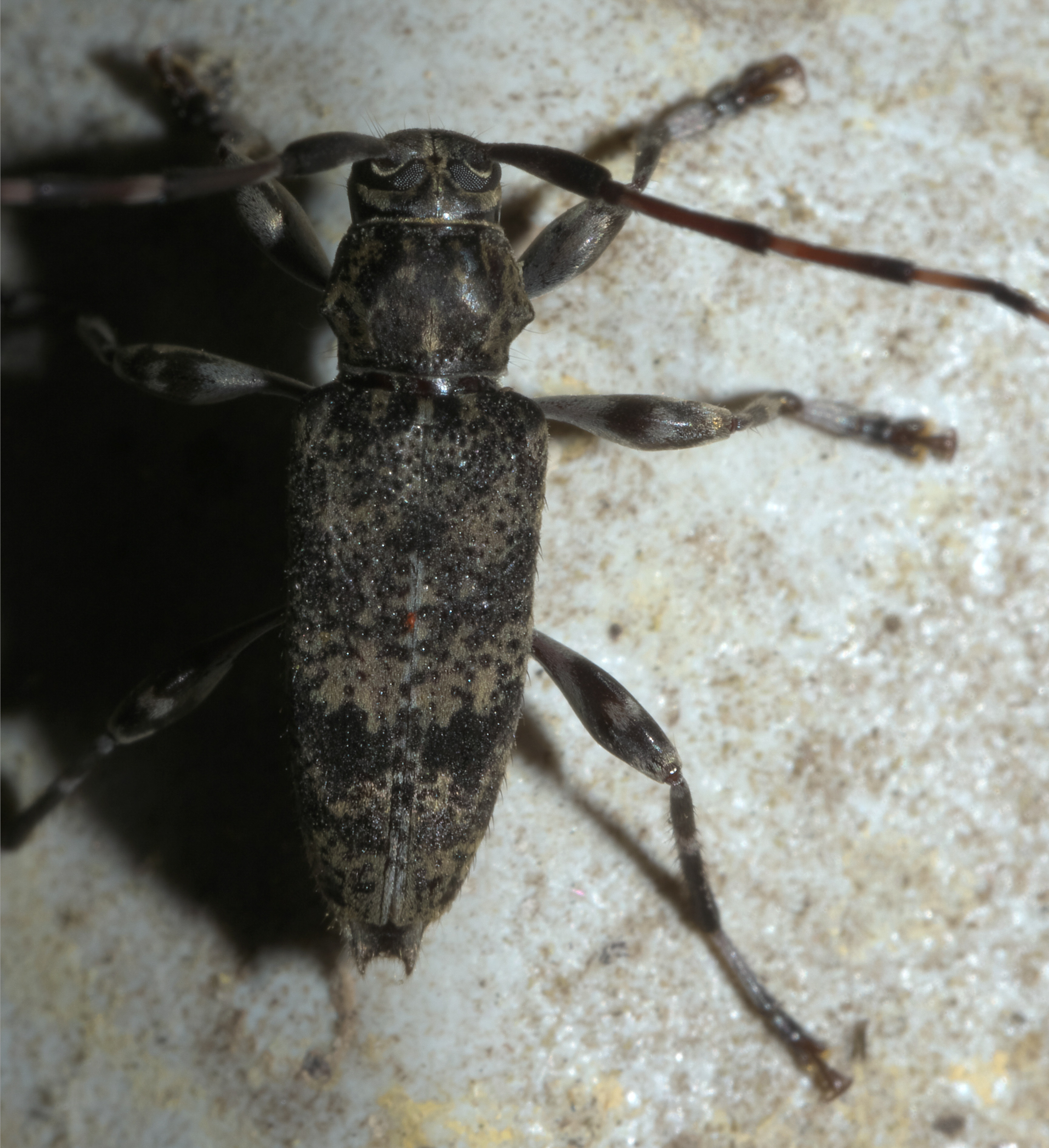 Graphisurus fasciatus, Subfamily: Flat-Faced Longhorns, male, Size: 10.2 mm, ID Confidence: 98